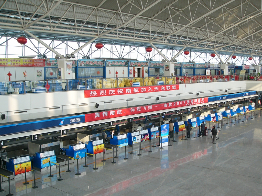 Urumqi Airport's domestic terminal. The banner at top celebrates China Southern's entrance into SkyTeam on 15 November 2007.